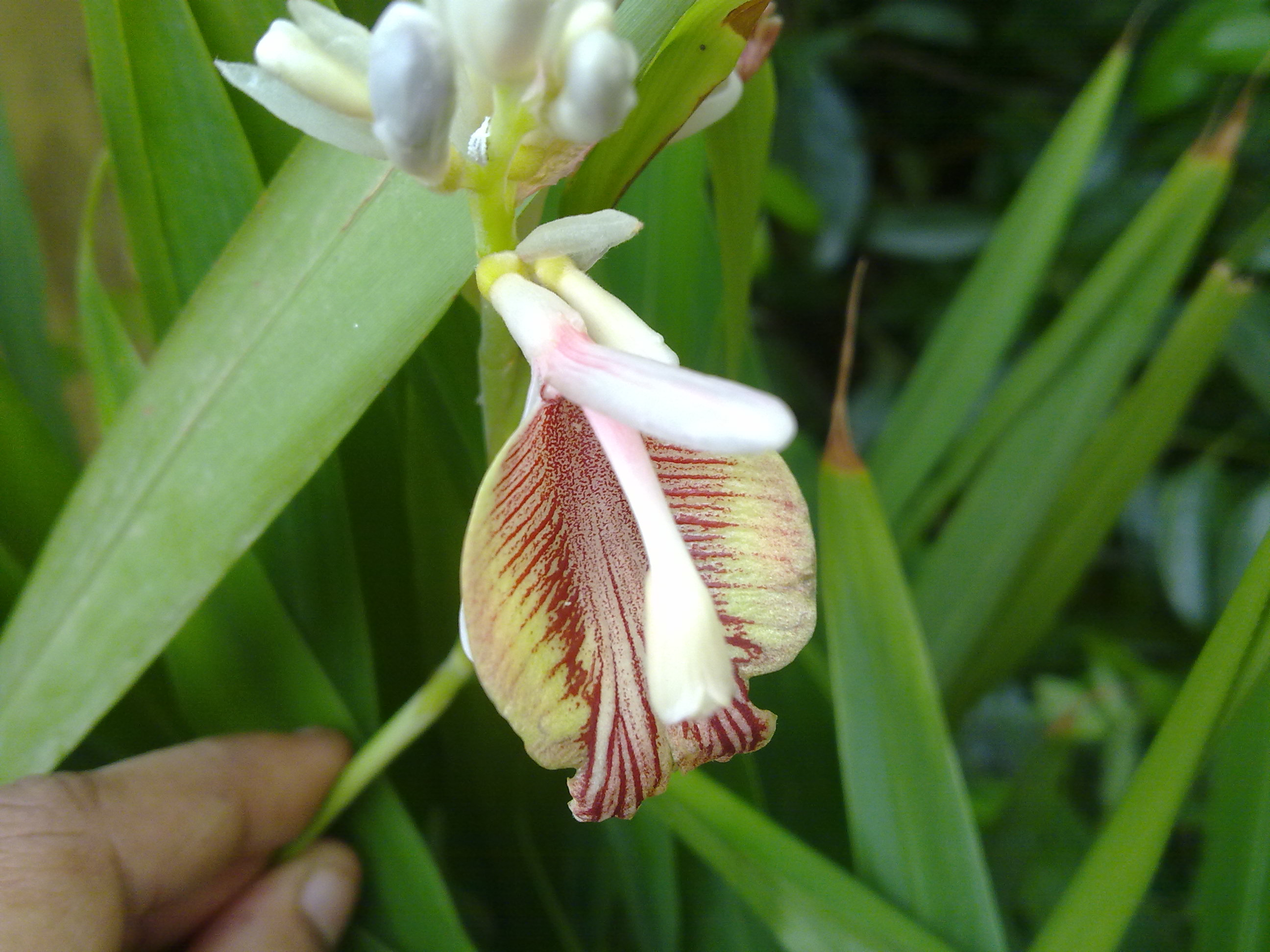 Black cardamom, also known as hill cardamom,[1] Bengal cardamom,[1] greater cardamom,[1] Indian cardamom,[1] Nepal cardamom,[1] winged cardamom,[1] or brown cardamom, comes from either of two species in the family Zingiberaceae. Its seed pods have a strong camphor-like flavor, with a smoky character derived from the method of drying.